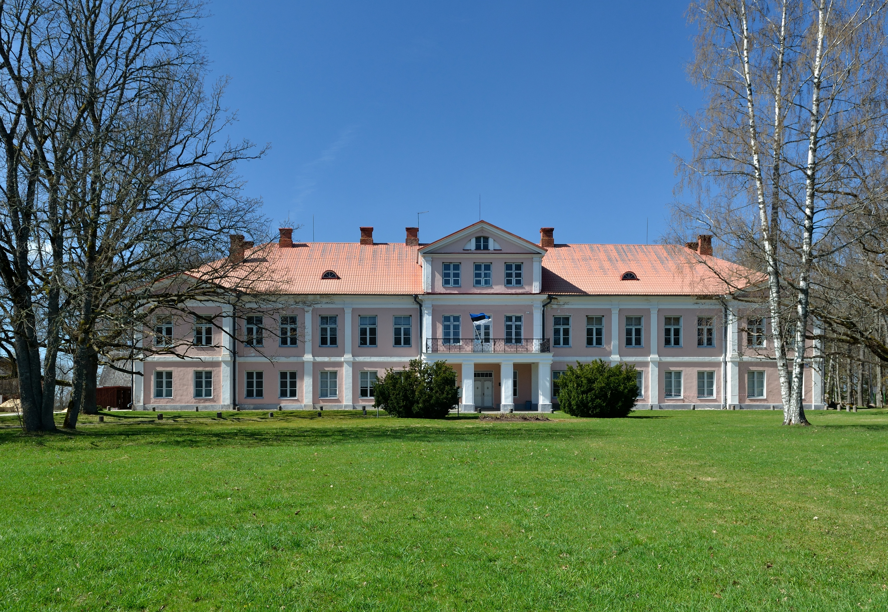 Kabala manor main building